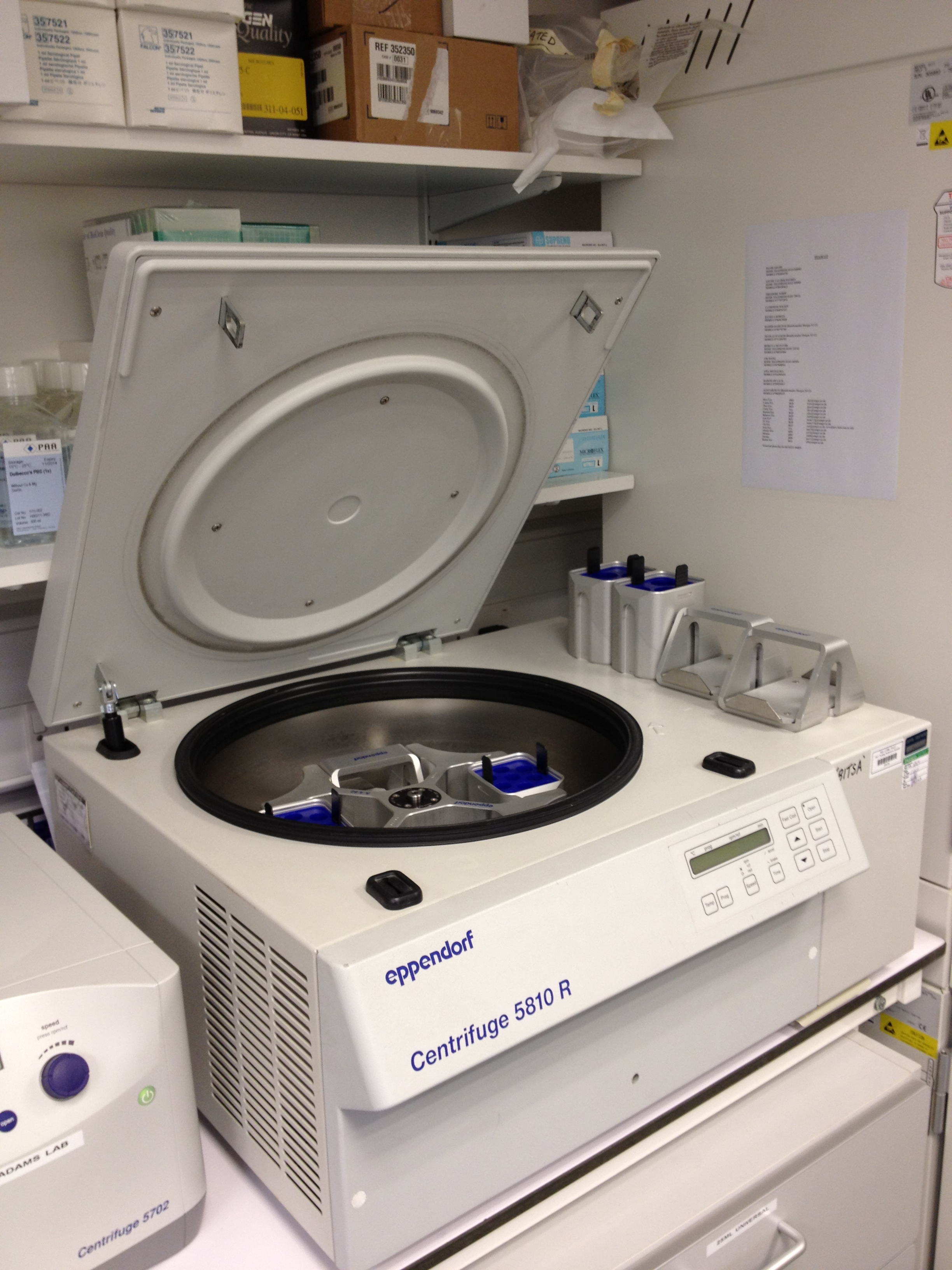 A 5810 R laboratory centrifuge manufactured by Eppendorf, taken at the Wellcome Trust Sanger Institute